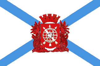 Flag of the city of Rio de Janeiro